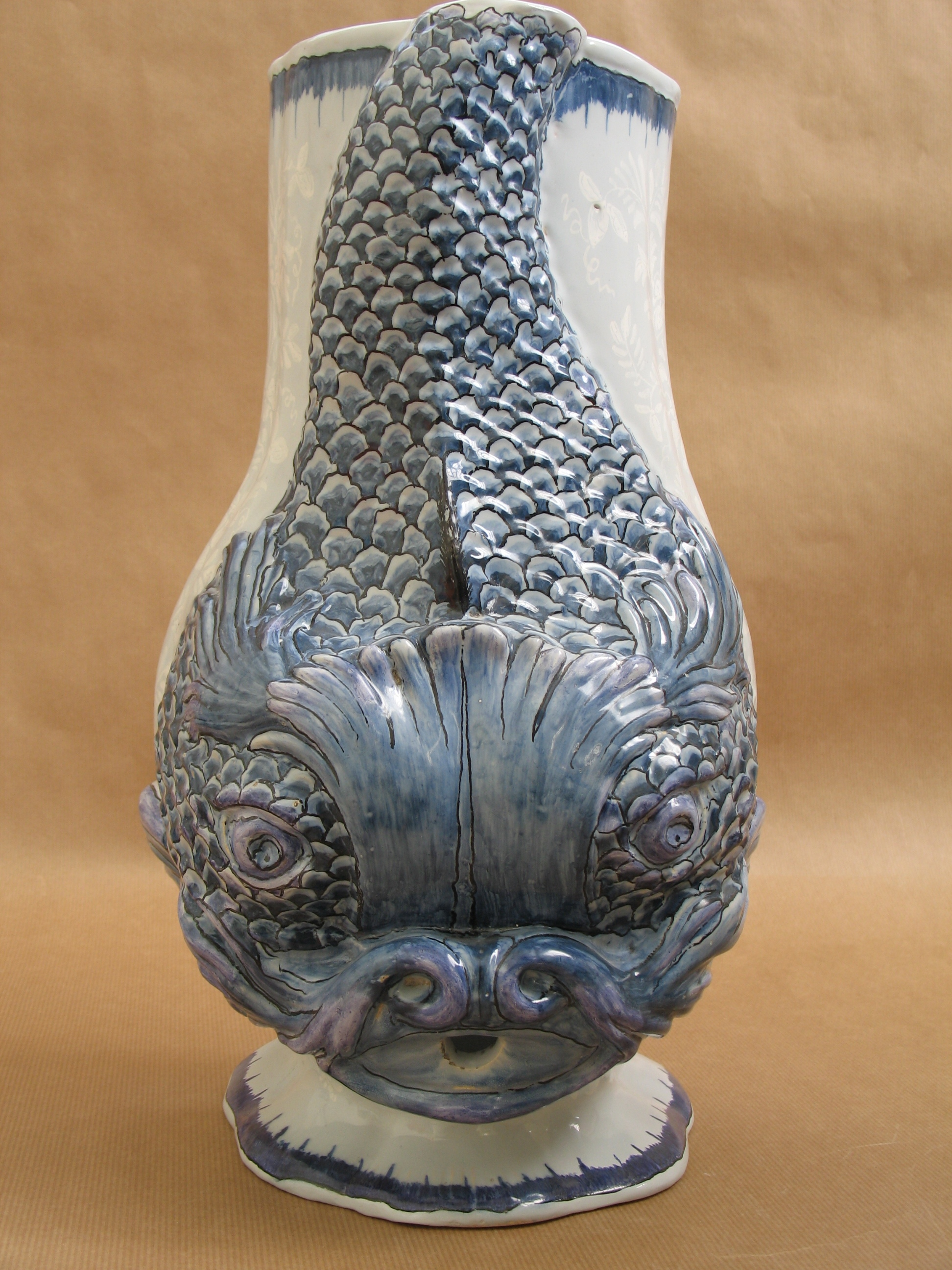 Fontaine dauphin (18è) par Fauquez.